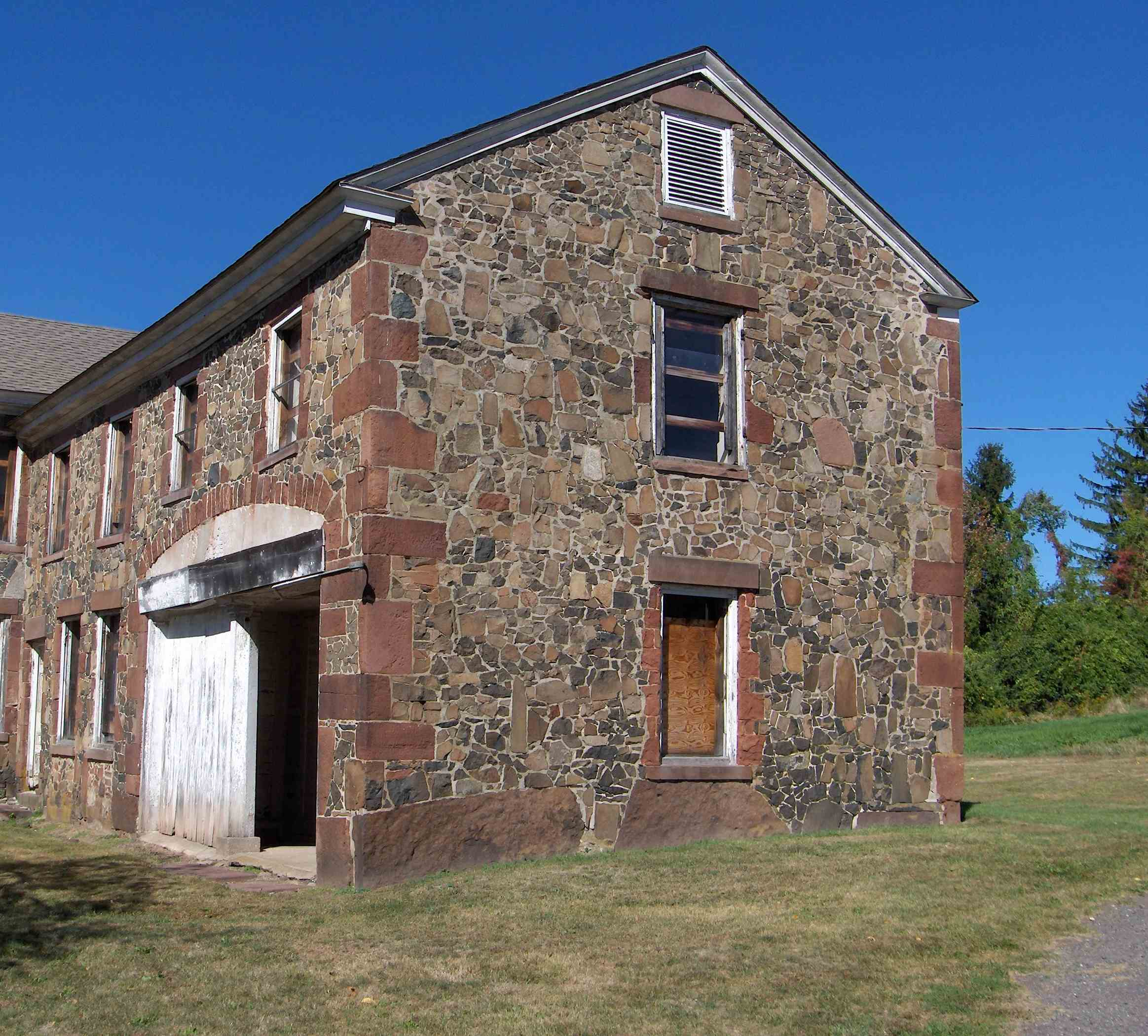 East wing of Captain Oliver Filley House, an 1834 Greek Revival stone building in Bloomfield CT USA